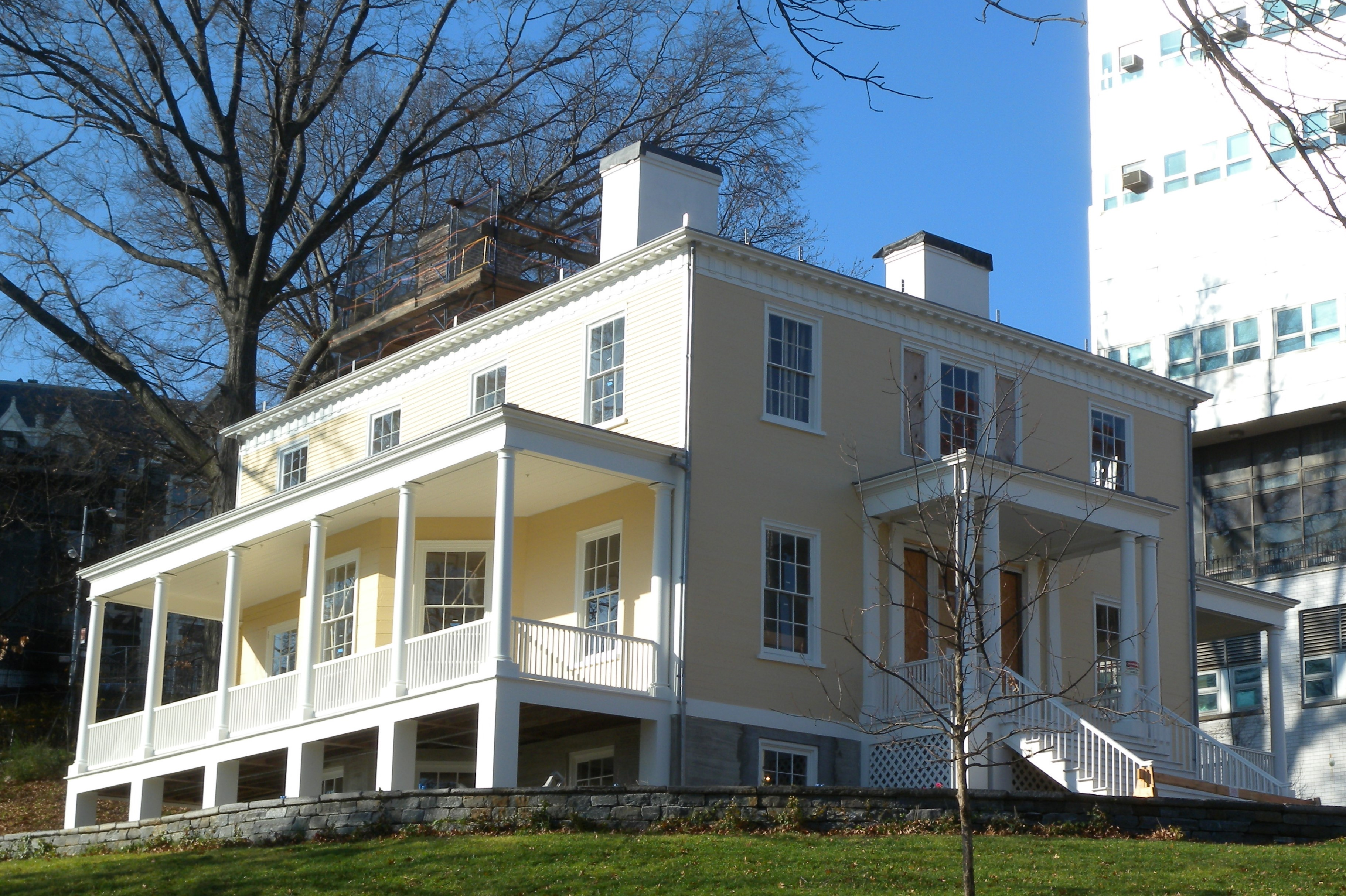 Peeking southwest and up through the fence from 141st at mansion on a sunny late morning.